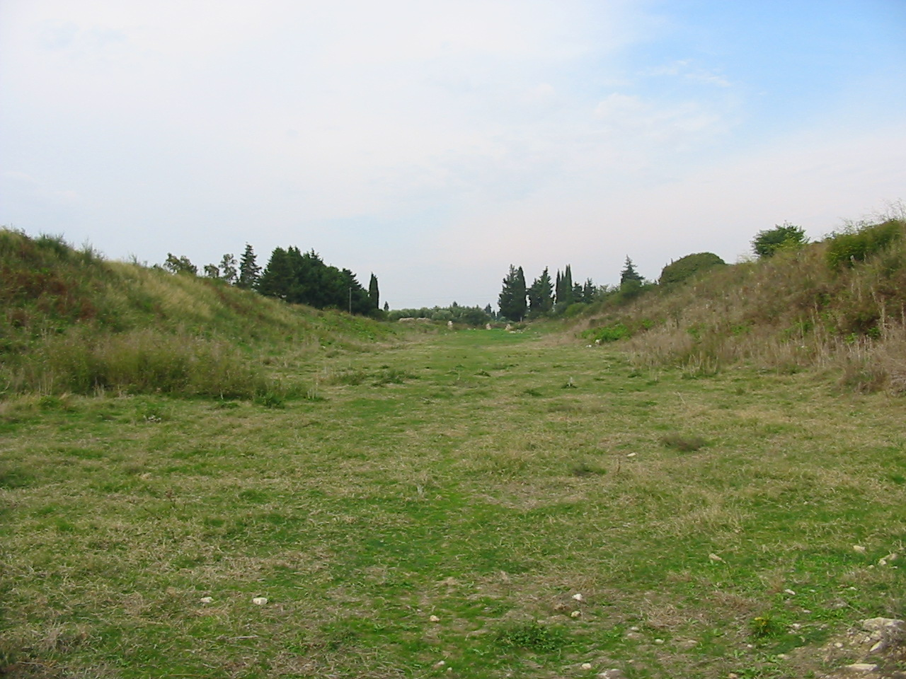 The scant remains of the stadium at Nikopolis